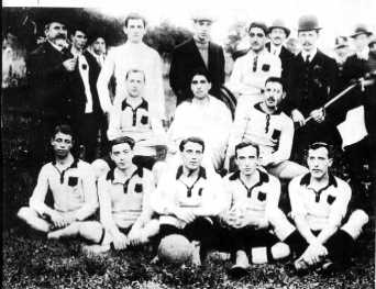 Palermo football club picture from 1910.